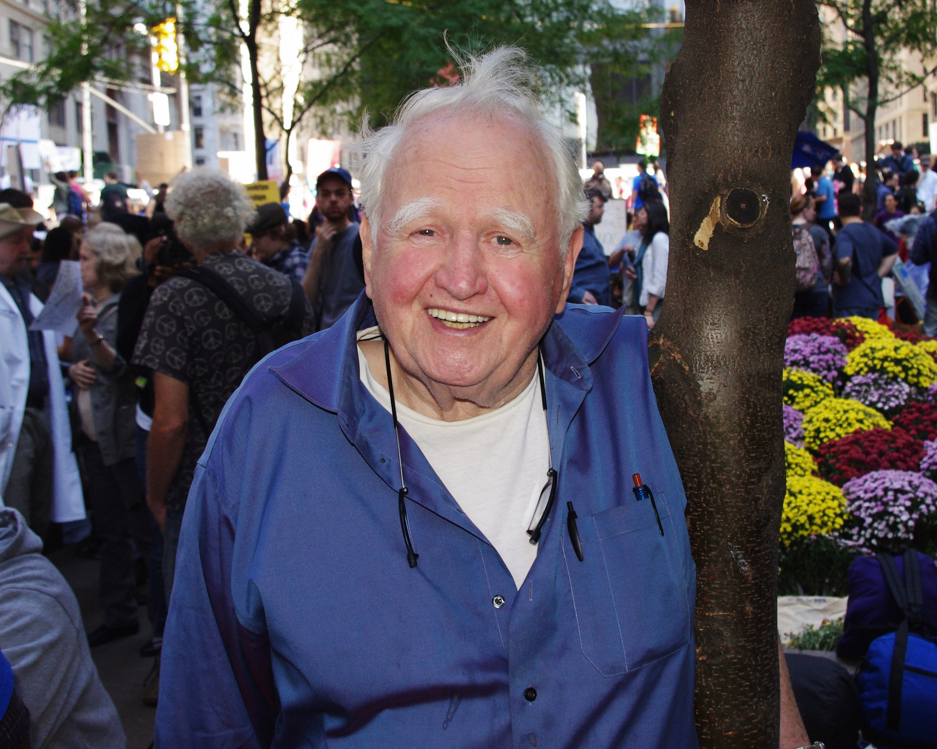 Malachy McCourt at Occupy Wall Street in Zuccotti Park/Liberty Park on Saturday, Day 23, October 8.